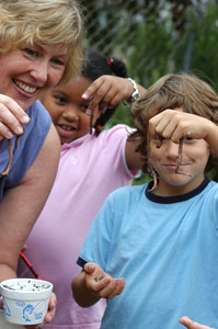 Long Beach, California, teacher Dianne Swanson (California & National Outstanding Teacher of 2007) and her second grade students check often-unseen contributors to her school garden. Photo courtesy Western Growers Charitable Foundation.